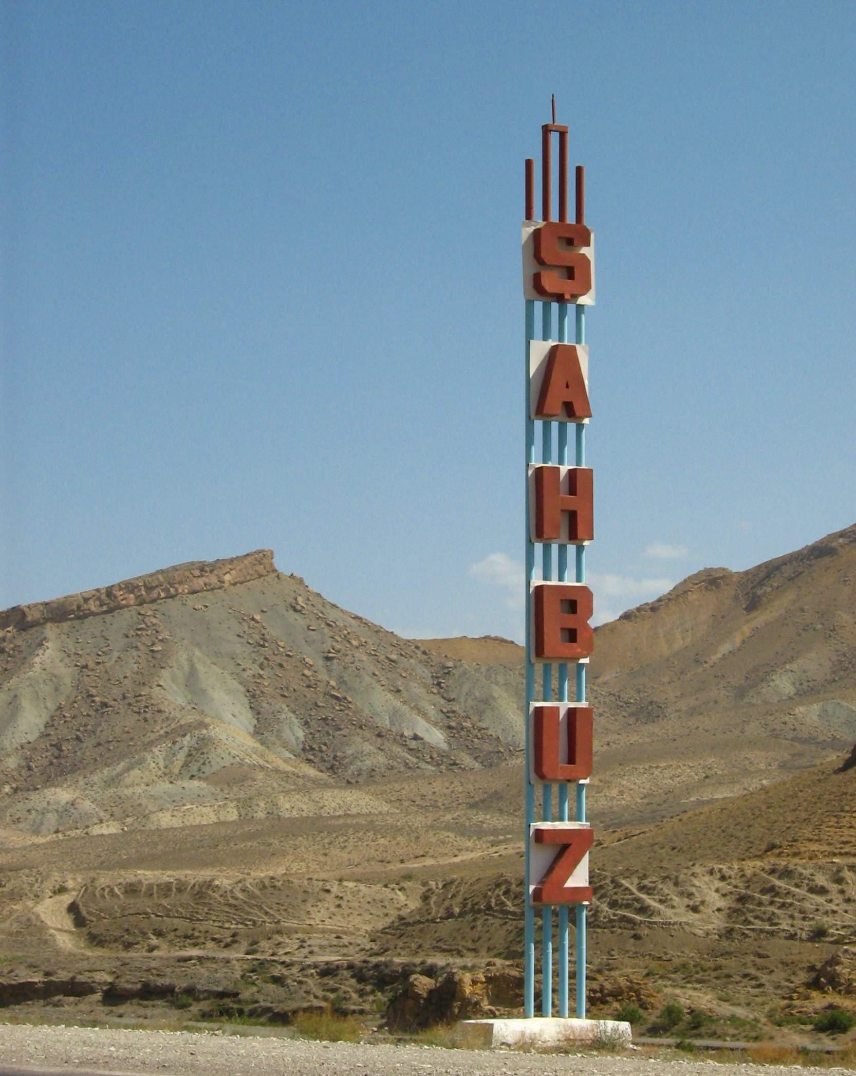 Road sign at the entrance to Shakhbuz Rayon, Azerbaijan.